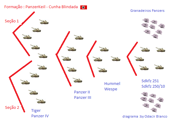 The Panzerkeil (Armoured Wedge)´- Ofensive Tatics